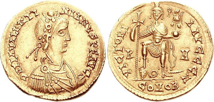 Germanic Tribes. Gaul. Mid-late 5th century. AV Solidus (4.37 g, 6h). Imitating Rome mint. Struck in the name of Valentinianus III, circa AD 423-455. D N PLA VALENTI-NIANVS P F AVG, rosette-diademed, draped, and cuirassed bust right VICTORI-A AVGGG, emperor standing facing, holding long cross in right hand, Victory on globe in left, stepping on head of human-headed, coiled serpent; R-M across field; Z//COMOB. G. Depeyrot, “Les solidi gaulois de Valentinian III,” SNR 65 (1986), group b, 1; BMC Vandals 3 (Vandals under Gaiseric). EF, a few light marks. Rare. From the Marc Poncin Collection. Depeyrot identified 17 coins that formed a homogenous group imitating an issue of Valentinian III from the 7th officina of the Rome mint. These coins have been attributed by various authors to the Vandals, Visigoths, and Burgundians, but Depeyrot’s analysis of finds has concluded that they are of a Gallic, or possibly Nordic, origin.